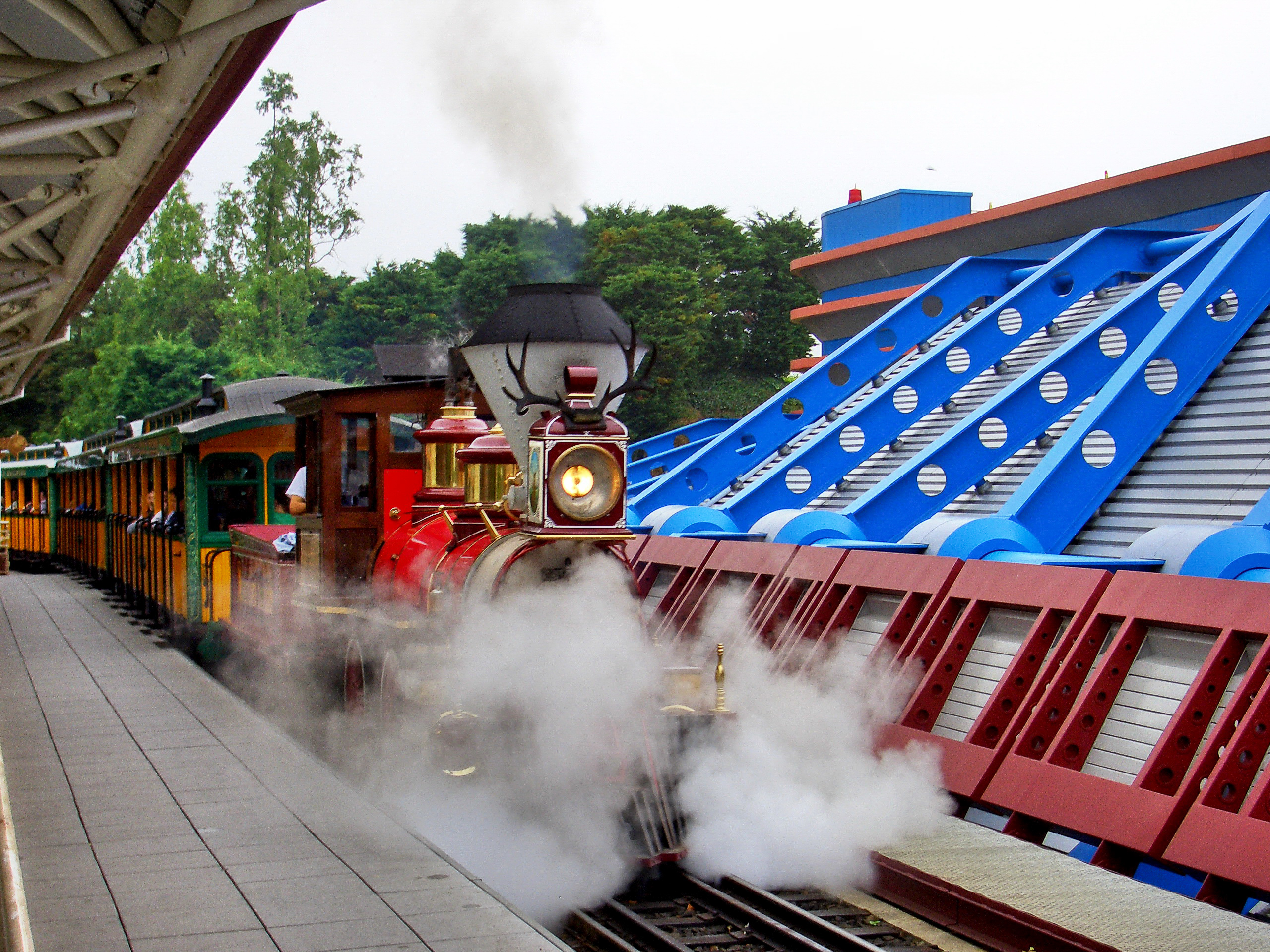 Disney Railroad train at Futureland station, Disneyland Park, Disneyland Resort Paris